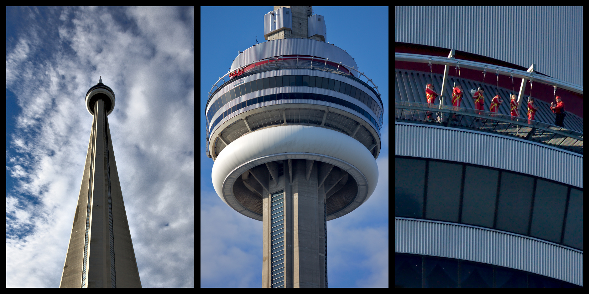 Three different views of the CN Tower, showing an EdgeWalk session in progress.